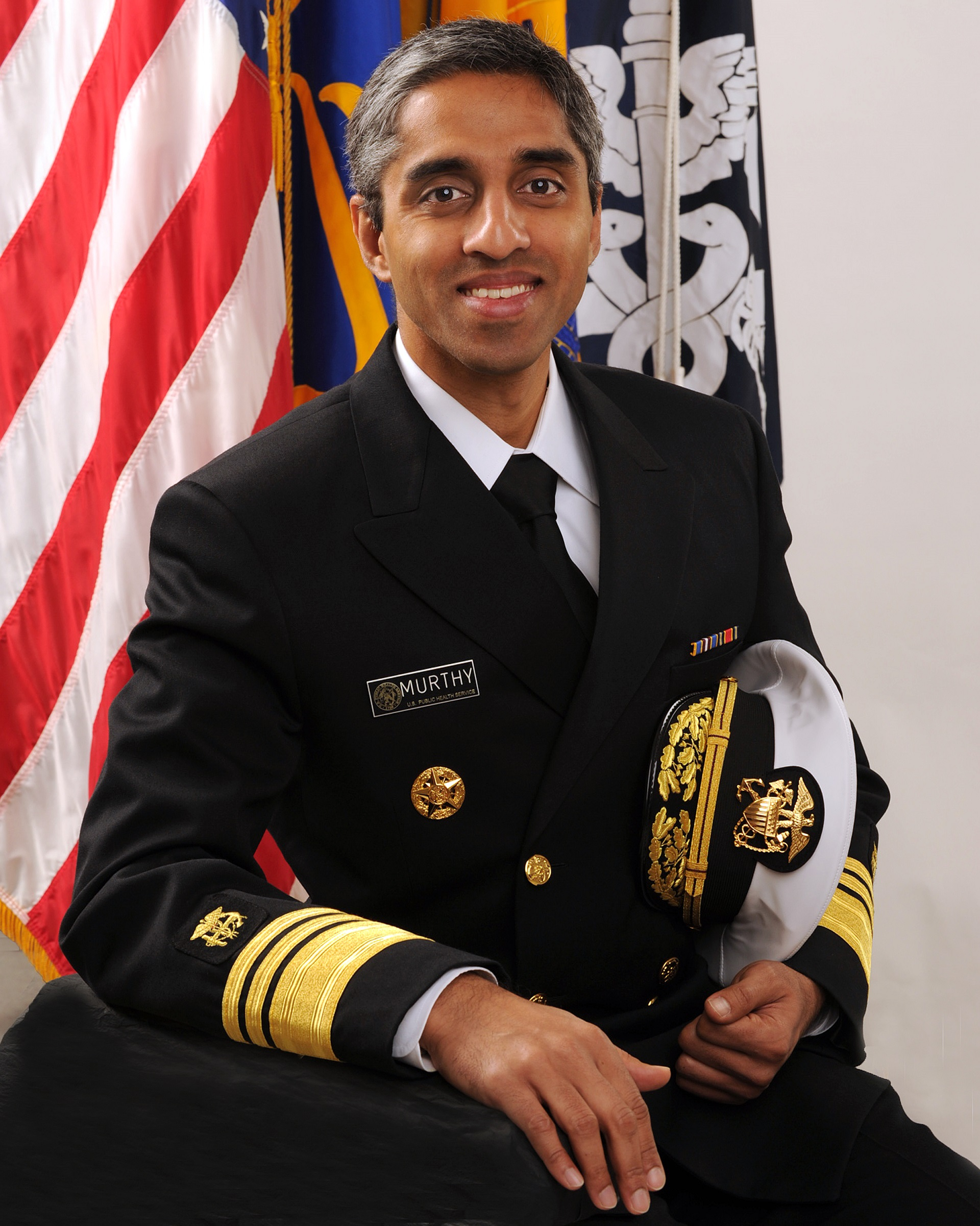 Vice Admiral Vivek H. Murthy, USPHS 19th Surgeon General of the United States